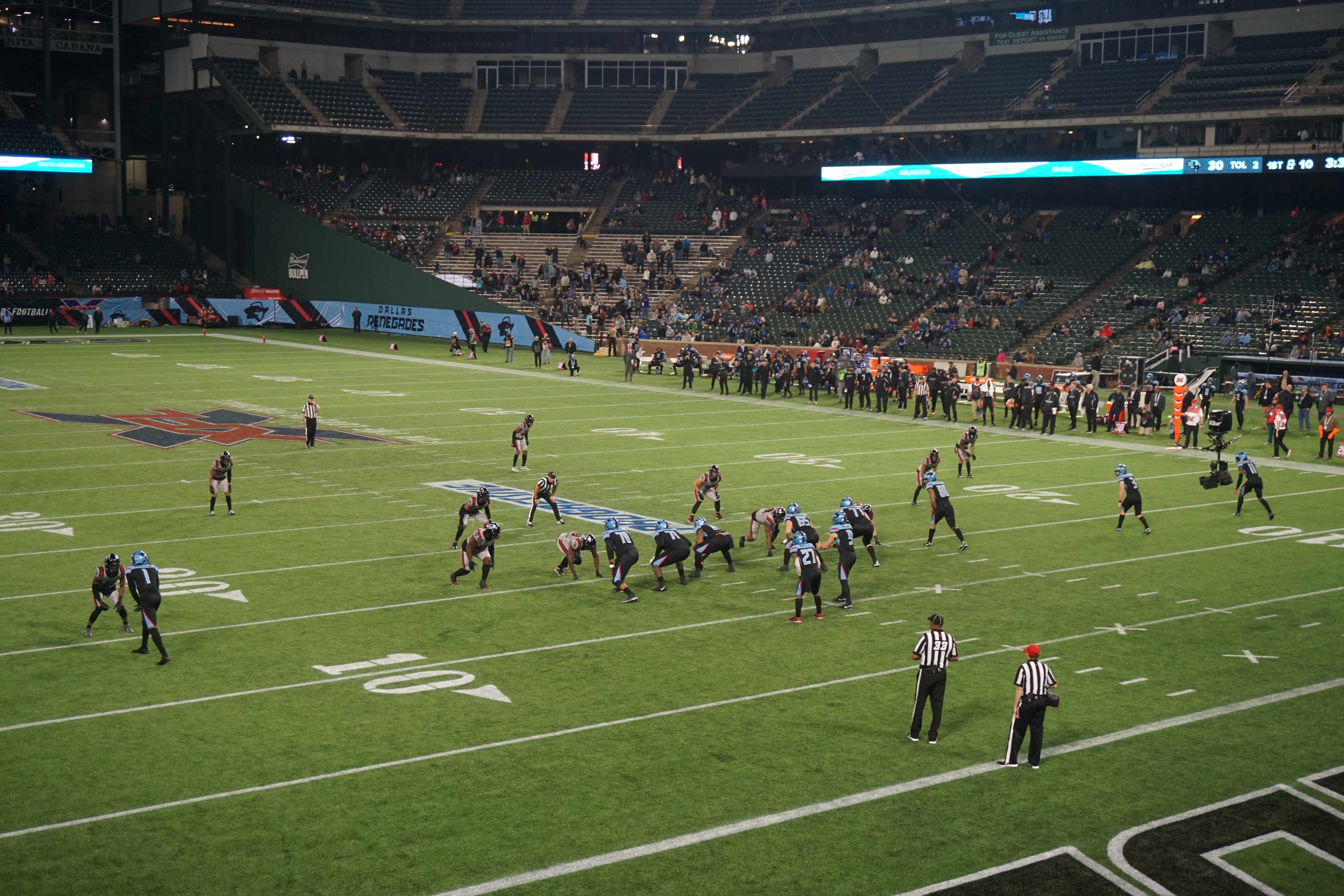 Dallas on offense during the New York Guardians vs. Dallas Renegades game at Globe Life Park in Arlington, Texas (United States). New York won 30–12.